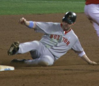 Trot Nixon slides into second on a double.